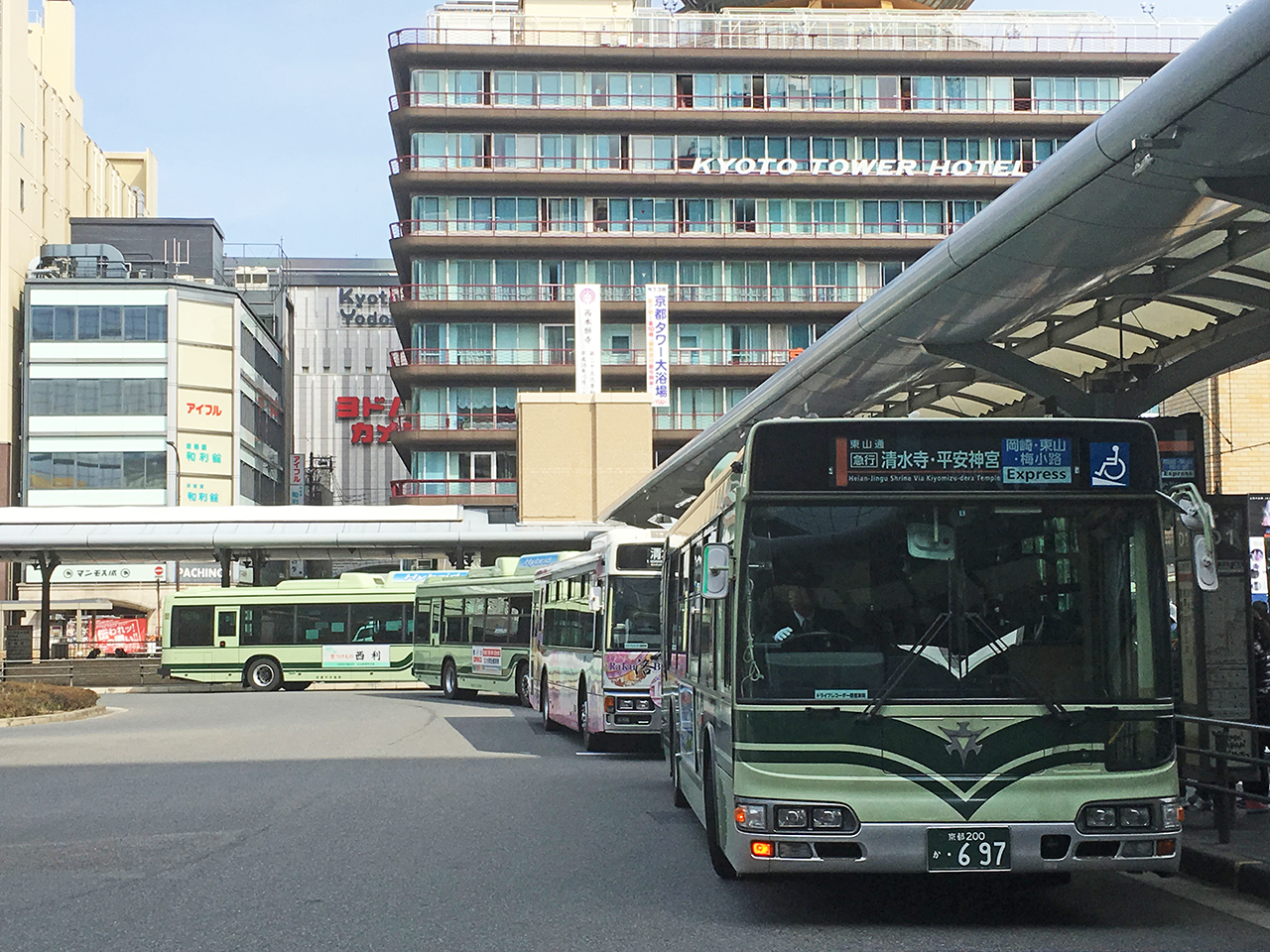 Kyoto Station's bus terminal